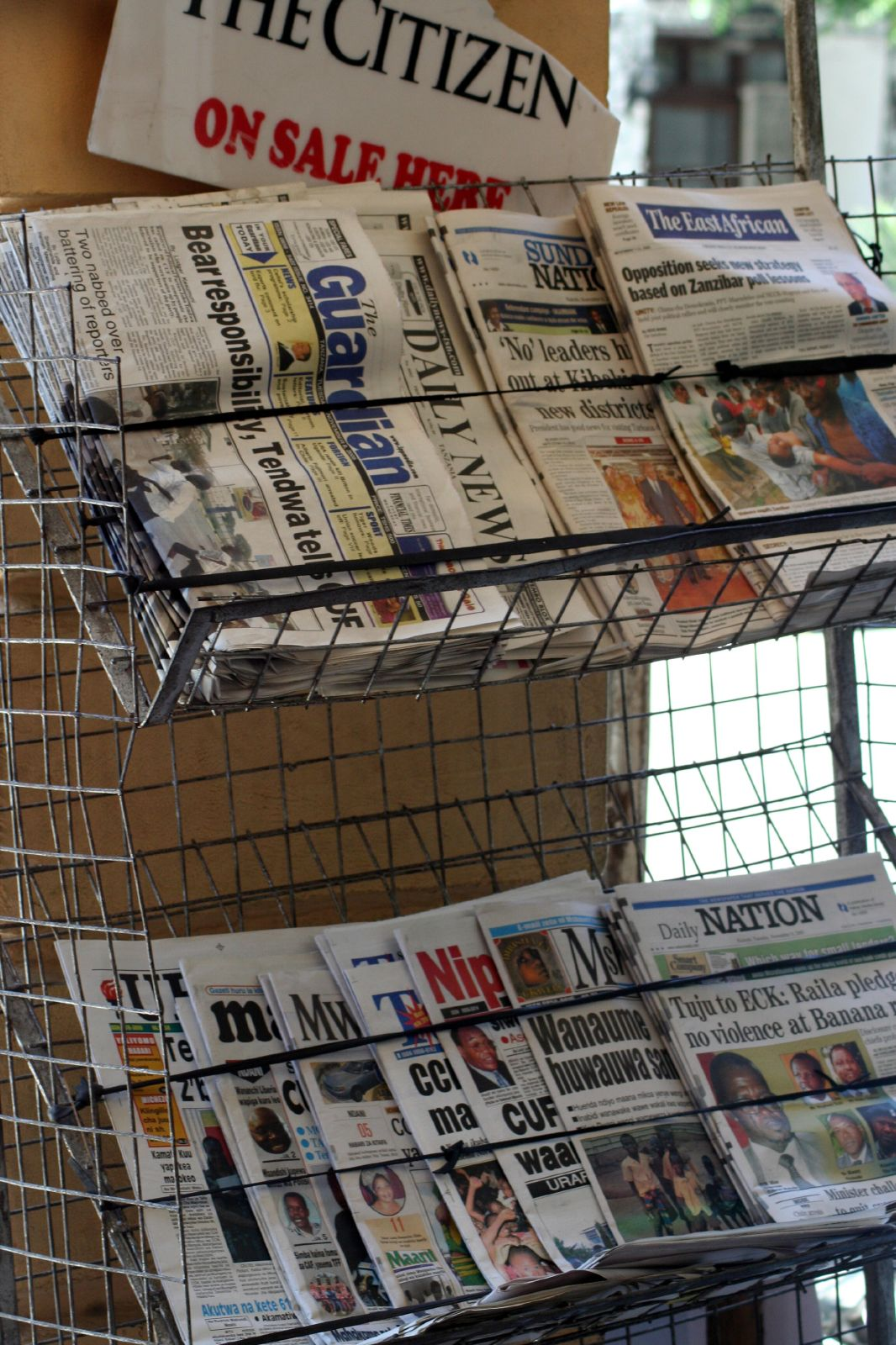 News stand